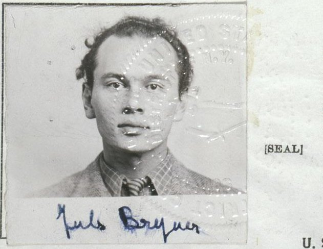 Photograph and seal from Yul Brynner's declaration of intent.